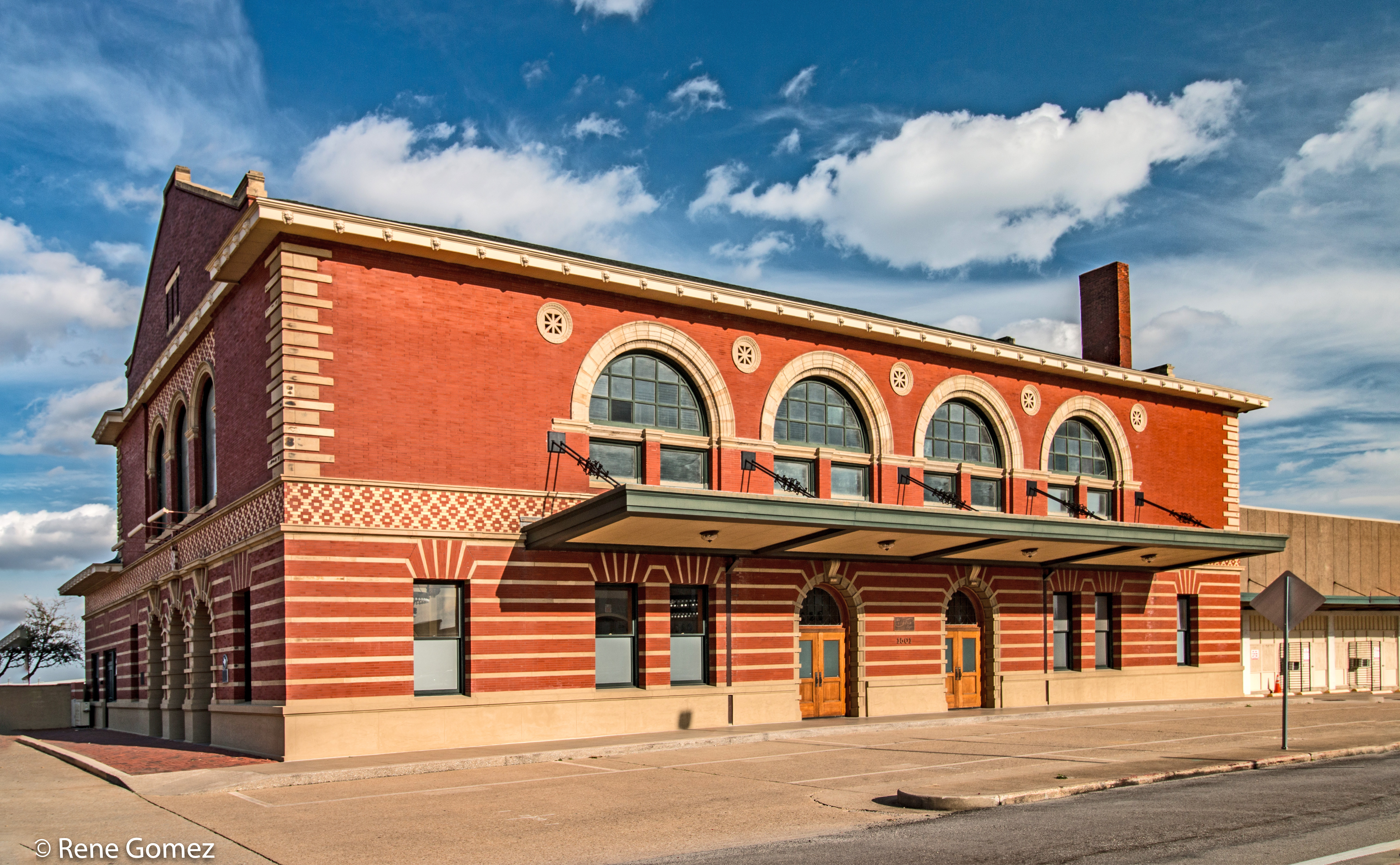 Gulf, Colorado and Sante Fe Railroad Passenger Station in Fort Worth, Texas